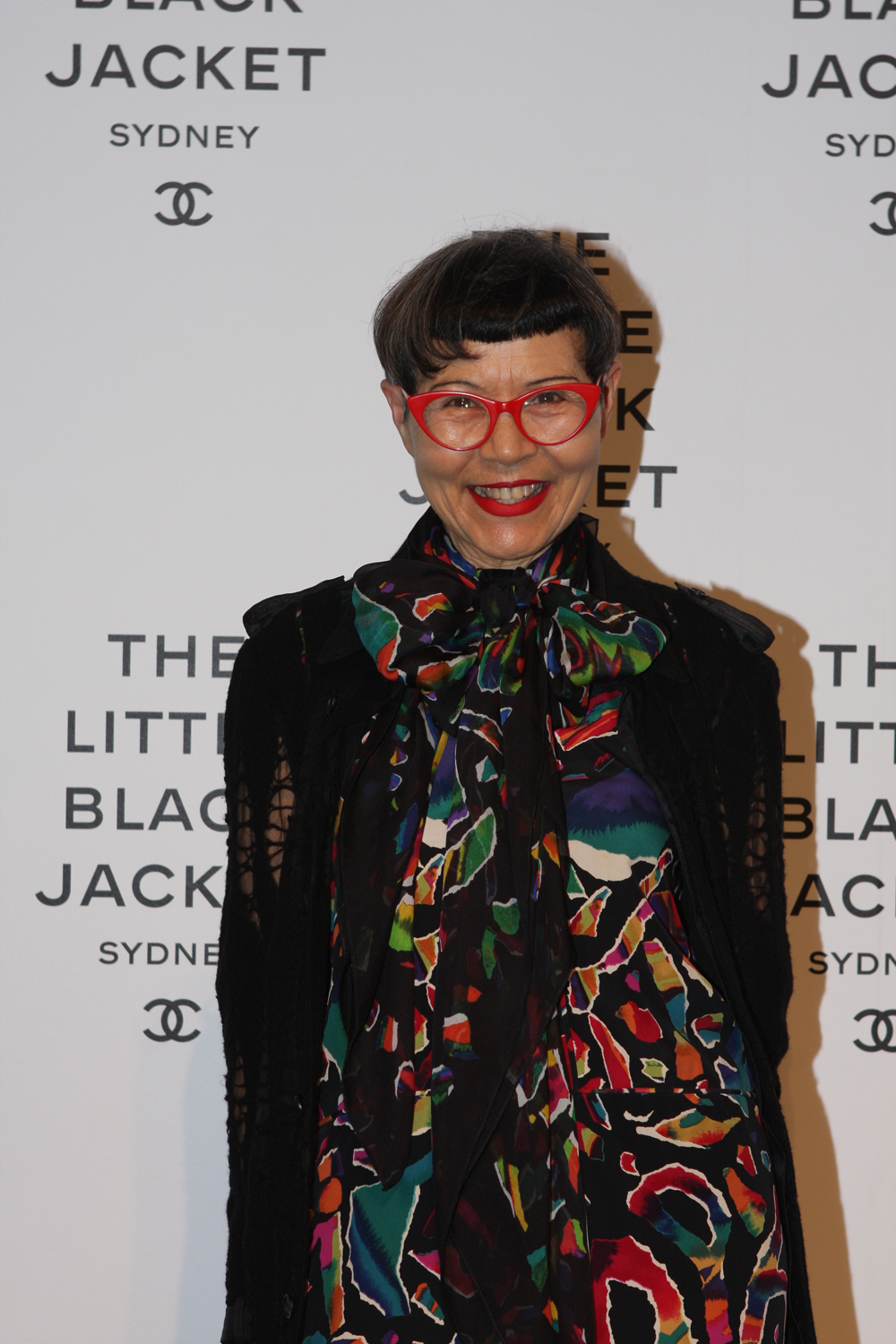 Jenny Kee at a Chanel function in Sydney